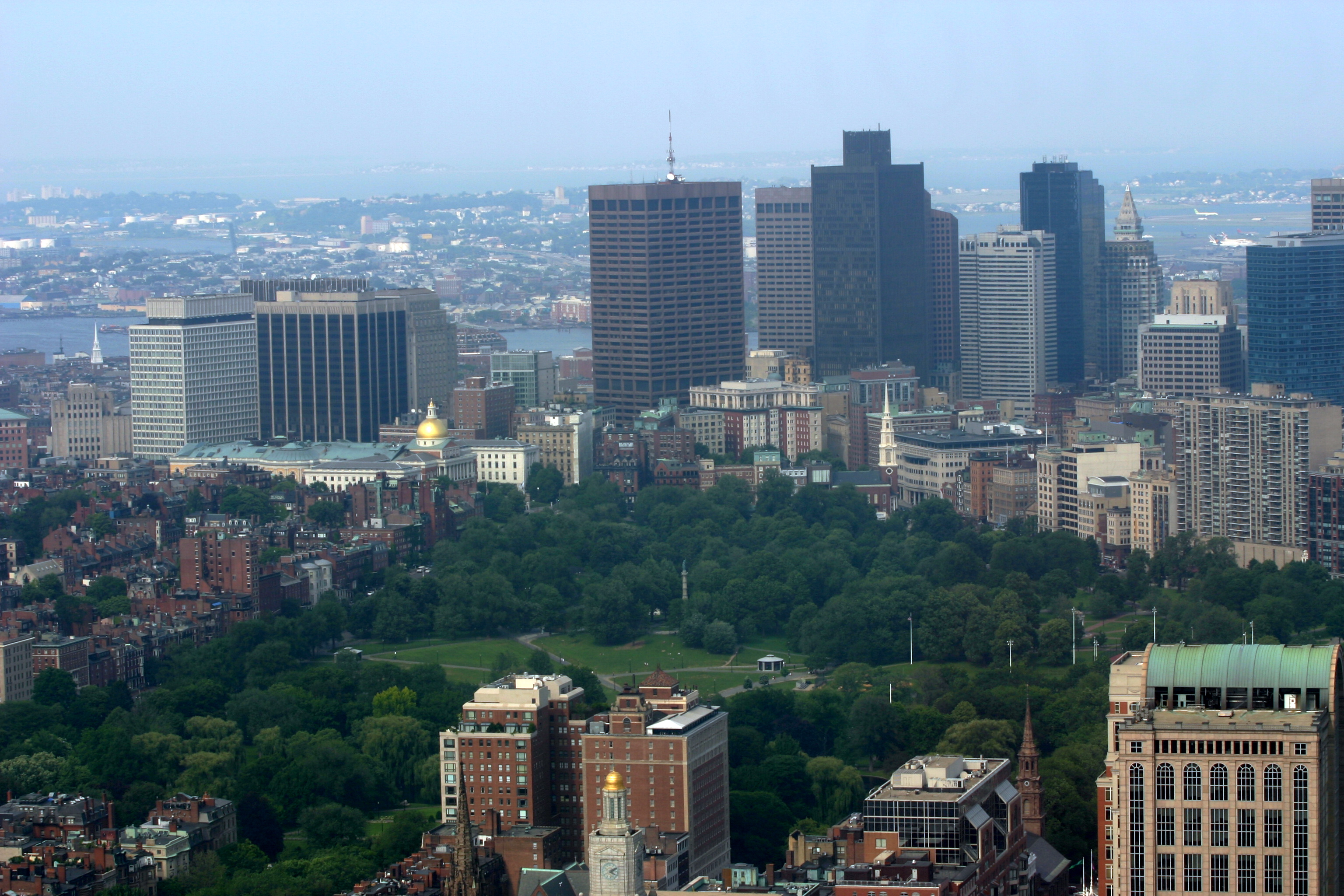 Photograph of Boston Common from the Skywalk observation deck of the Prudential Center